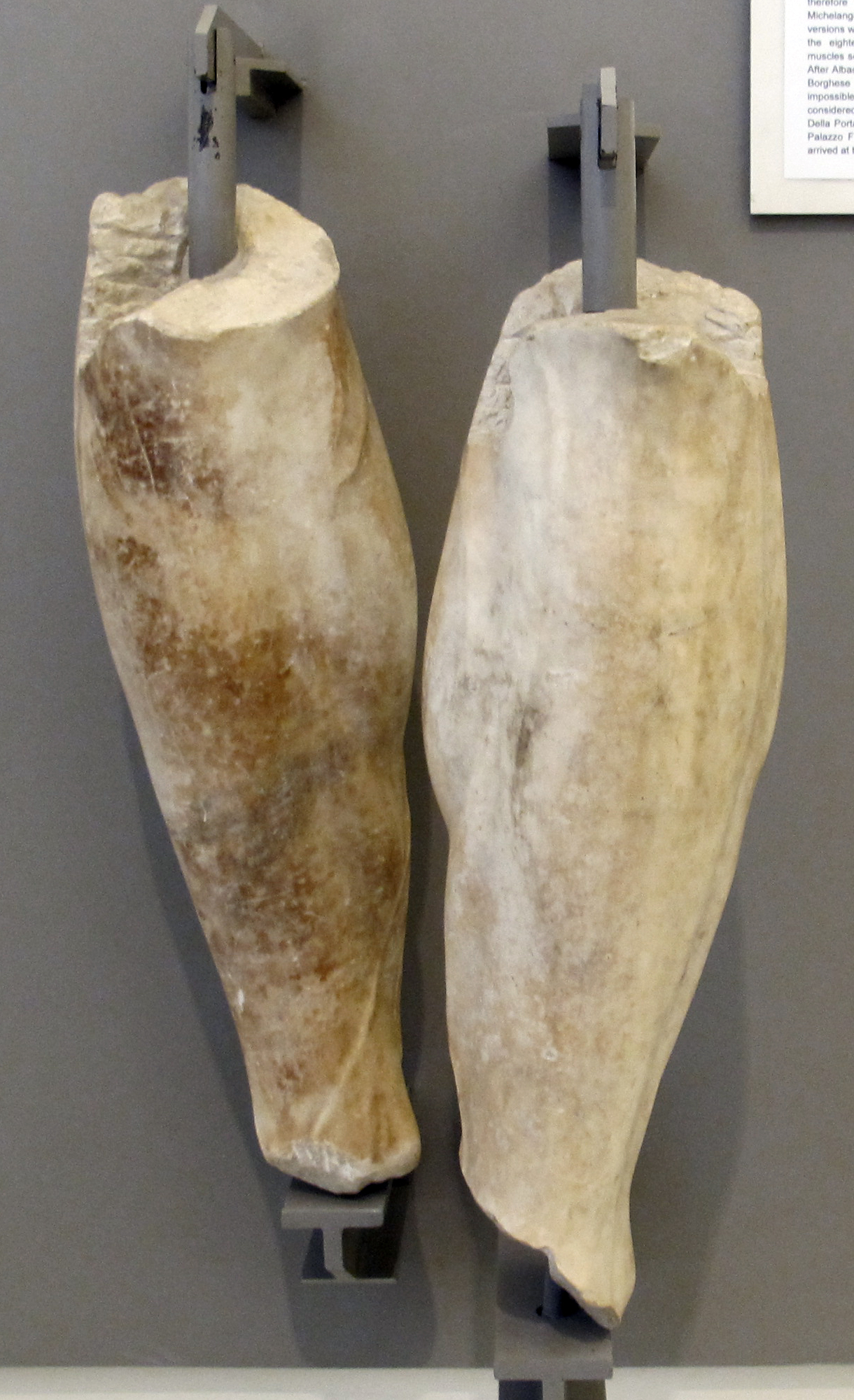 Ancient Roman statues from the Farnese Collection, now in Naples